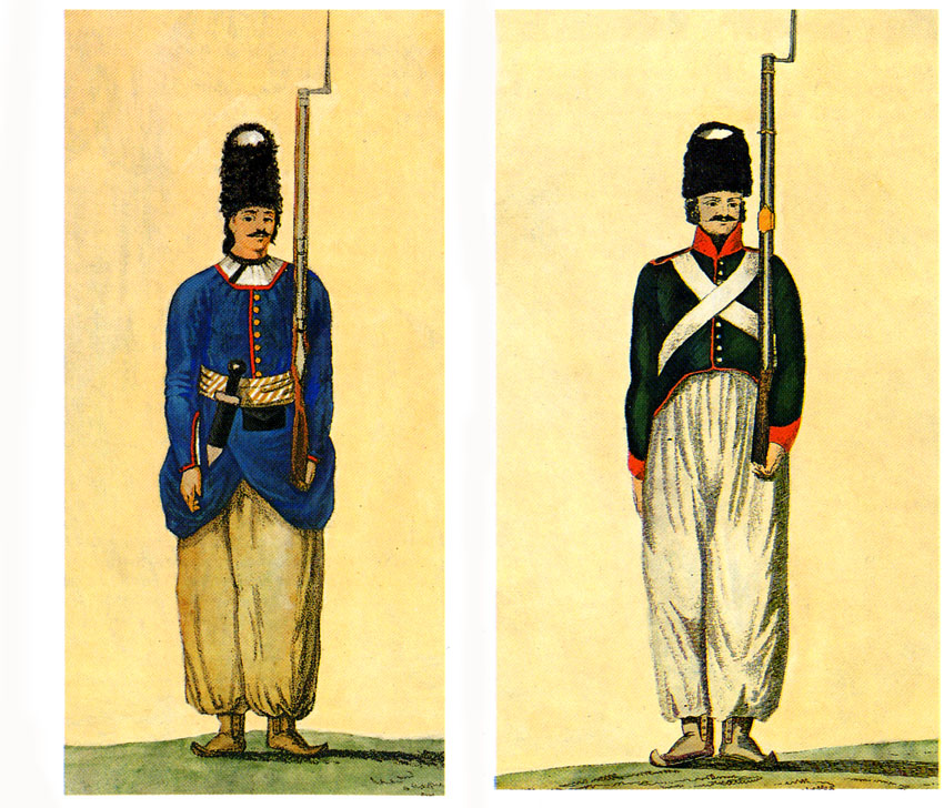 Qajar Sarbaz (soldier) in the earliest "uniform" (left, about 1808) and in the initial uniform of the French sample (right, about 1810s). Drawn by Drouville in 1826.